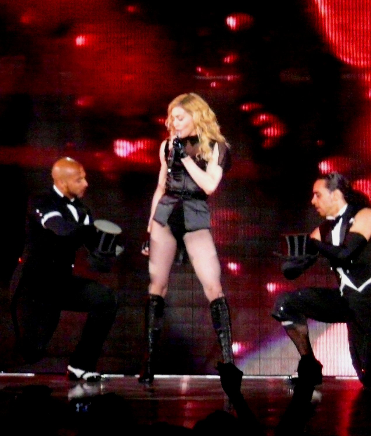 Durante su concierto en el Vicente Calderón. Cantó poco, lució miles de músculos que no parecen humanos, bailó mucho MUY BIEN acompañada, sobró algo de chunda chunda, faltaron clásicos y NO ERAN NECESARIOS los guiños a algo similar a... músicas del mundo, por decir algo.